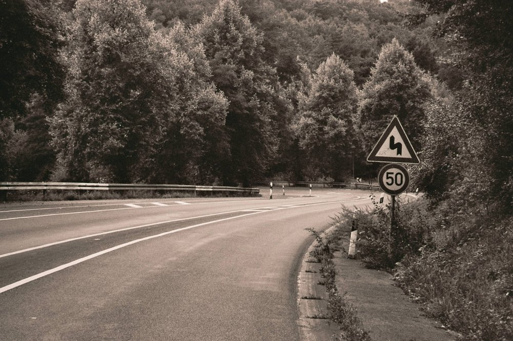 A road curve directed to left, Germany